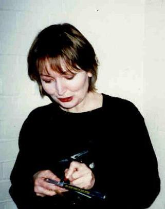 Mary Hopkin signing an autograph backstage in Brighton, 1982.